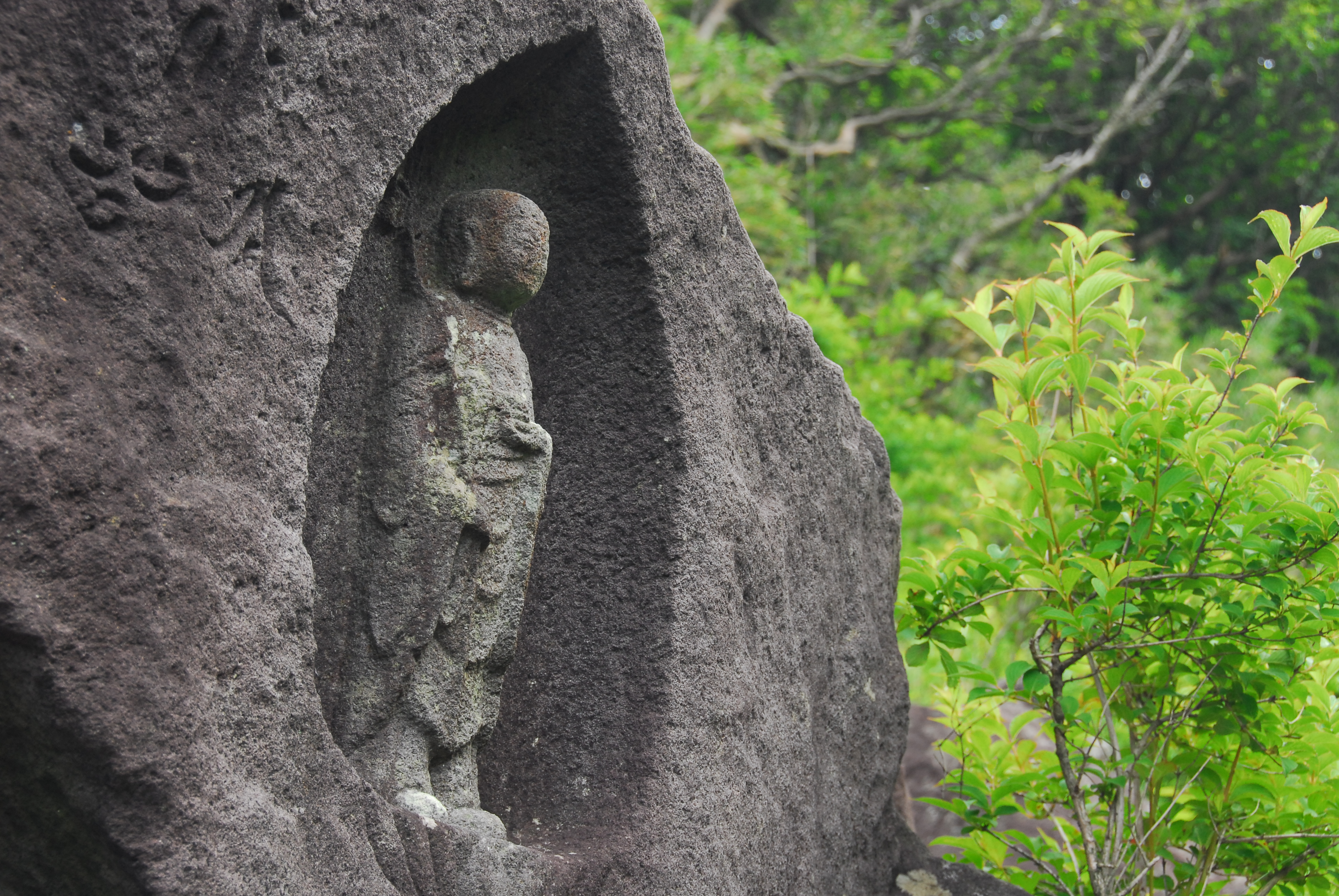 Moto-Hakone Stone Buddhas (元箱根石仏群, Moto-Hakone sekibutsu)